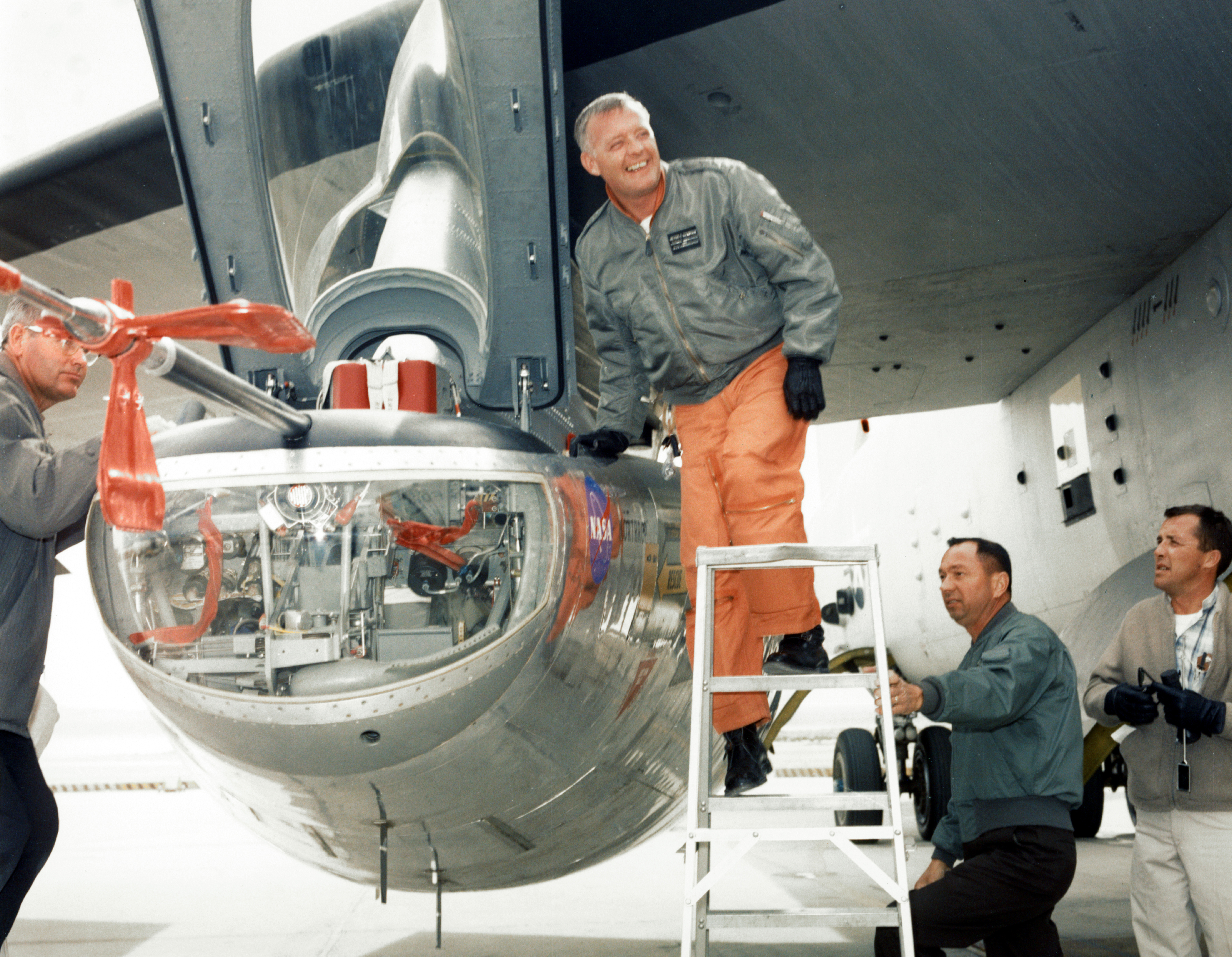 Jay L. King, Joseph D. Huxman and Orion D. Billeter assist NASA research pilot Milt Thompson (on the ladder) into the cockpit of the M2-F2 lifting body research aircraft at the NASA Flight Research Center (now the Dryden Flight Research Center). The M2-F2 is attached to a wing pylon under the wing of NASA's B-52 mothership.